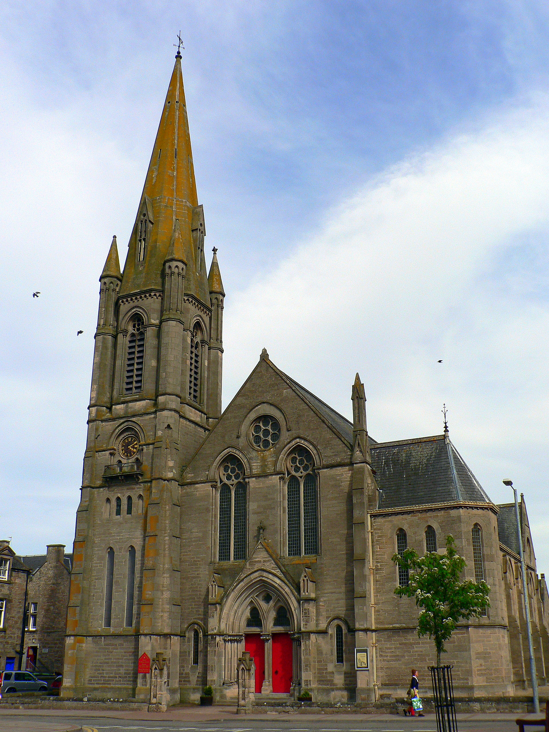 Church in Nairn, Scotland